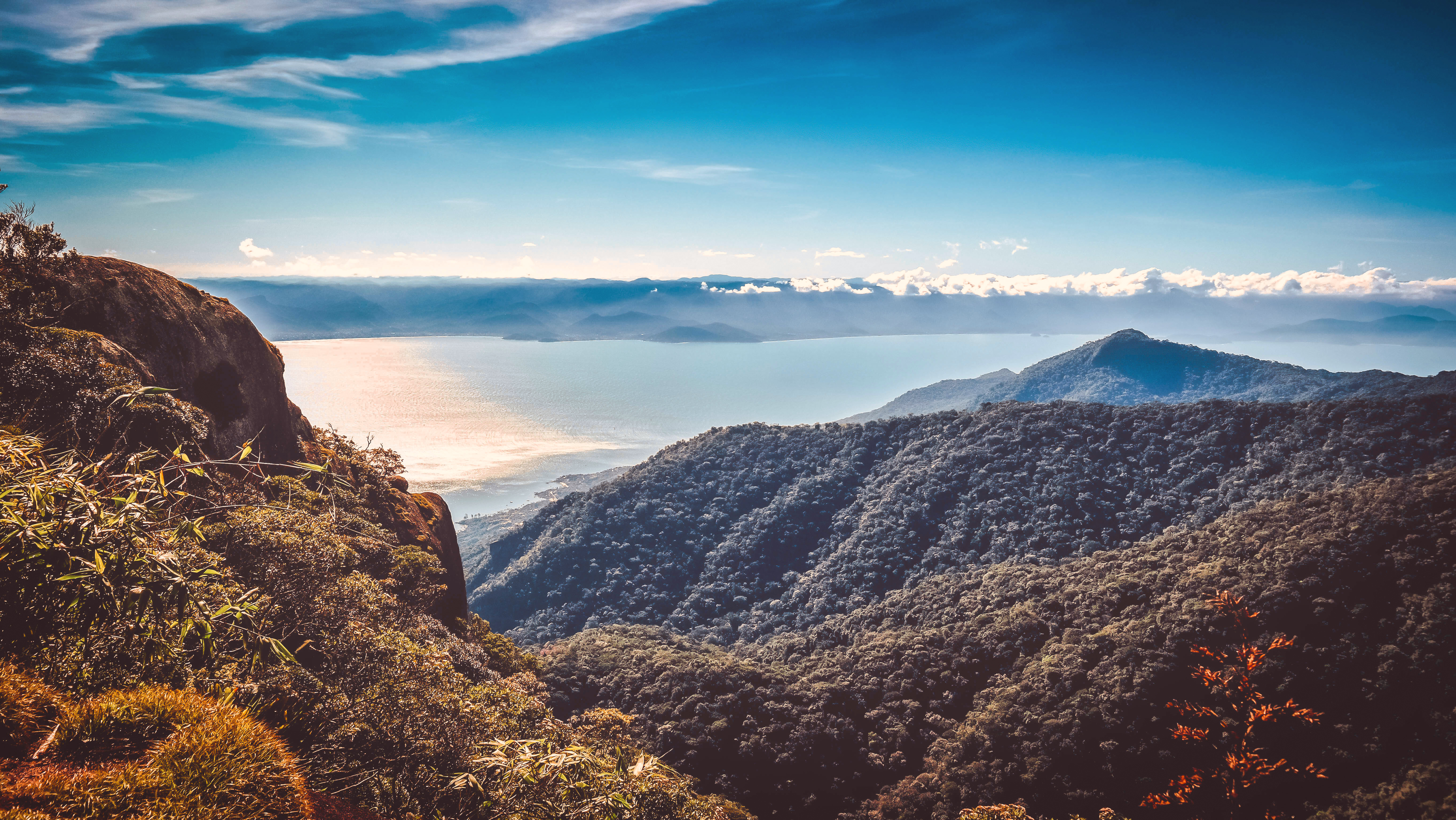 Vista do cume do Pico do Baepi